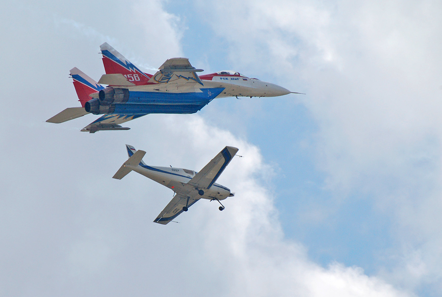 МиГ-29М ОВТ аnd Ил-103 fly on one speed (the international aerospace salon MAKS-2007)